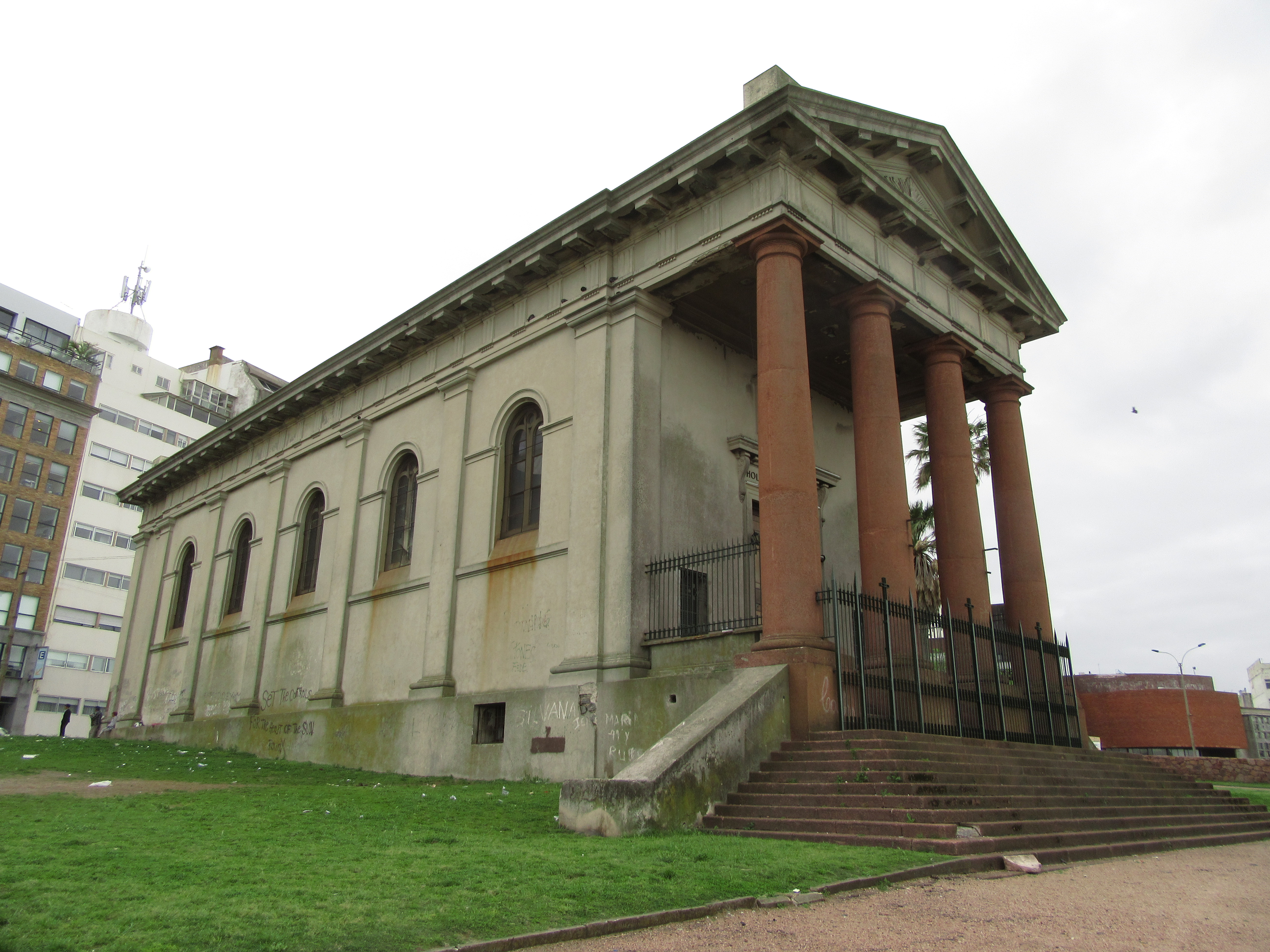 Montevideo